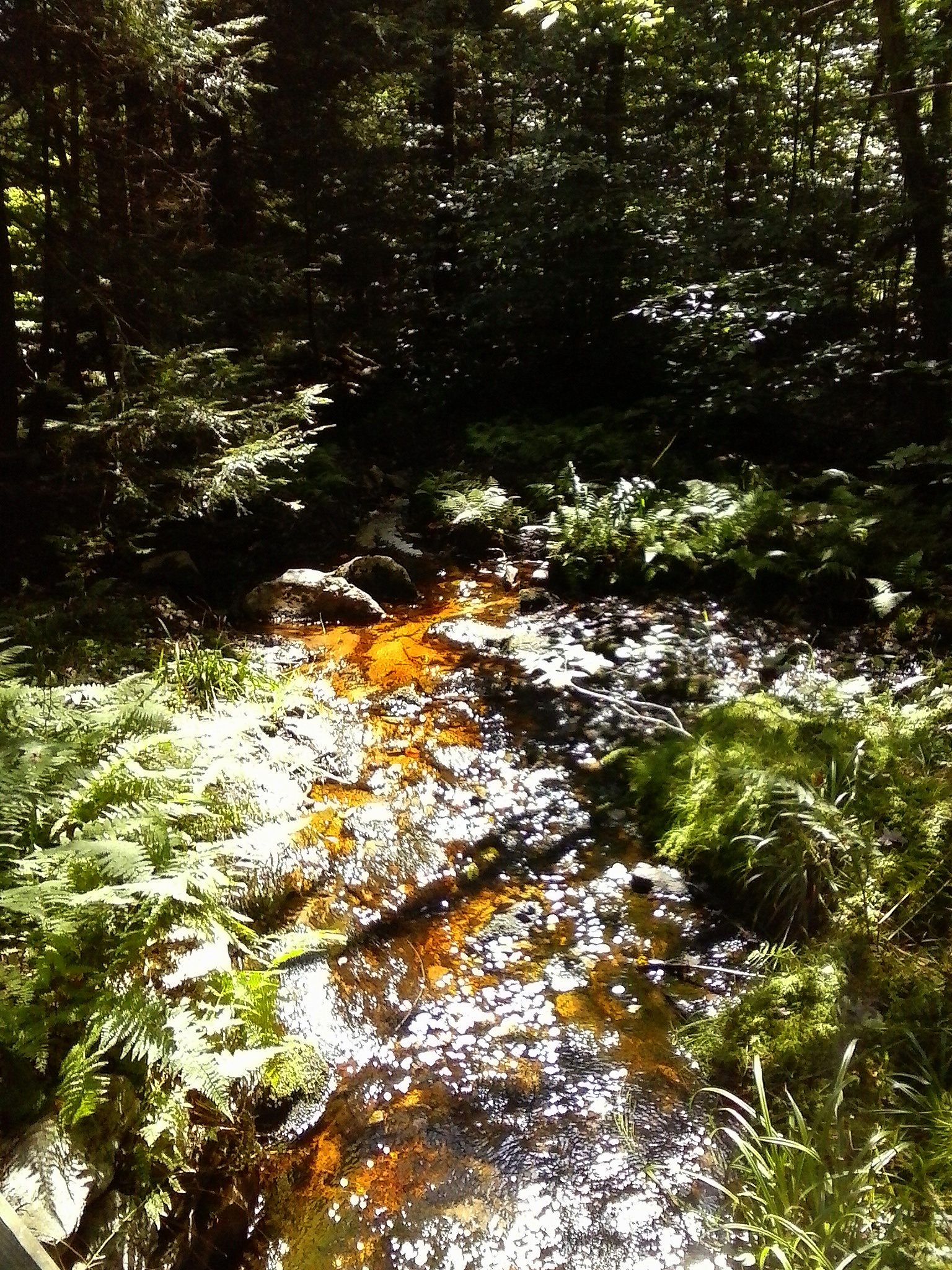 South Branch Bowman Creek on the Mountain Springs Trail in Ricketts Glen State Park.